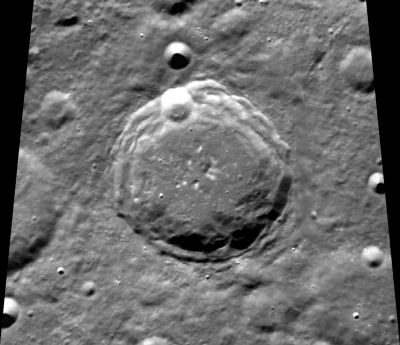 Schjellerup lunar crater - Clementine image